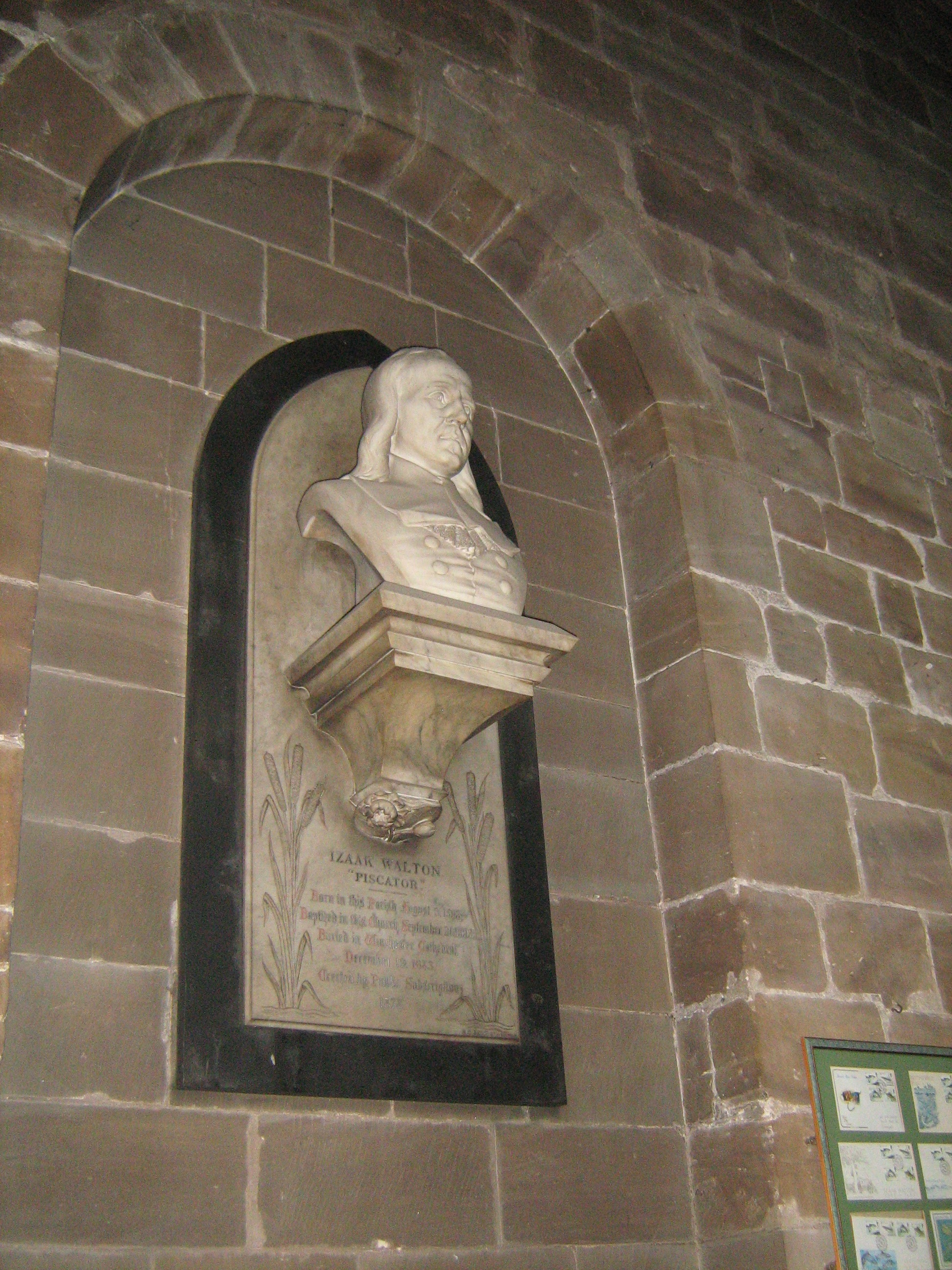 Izaak Walton monument, St.Mary, Stafford